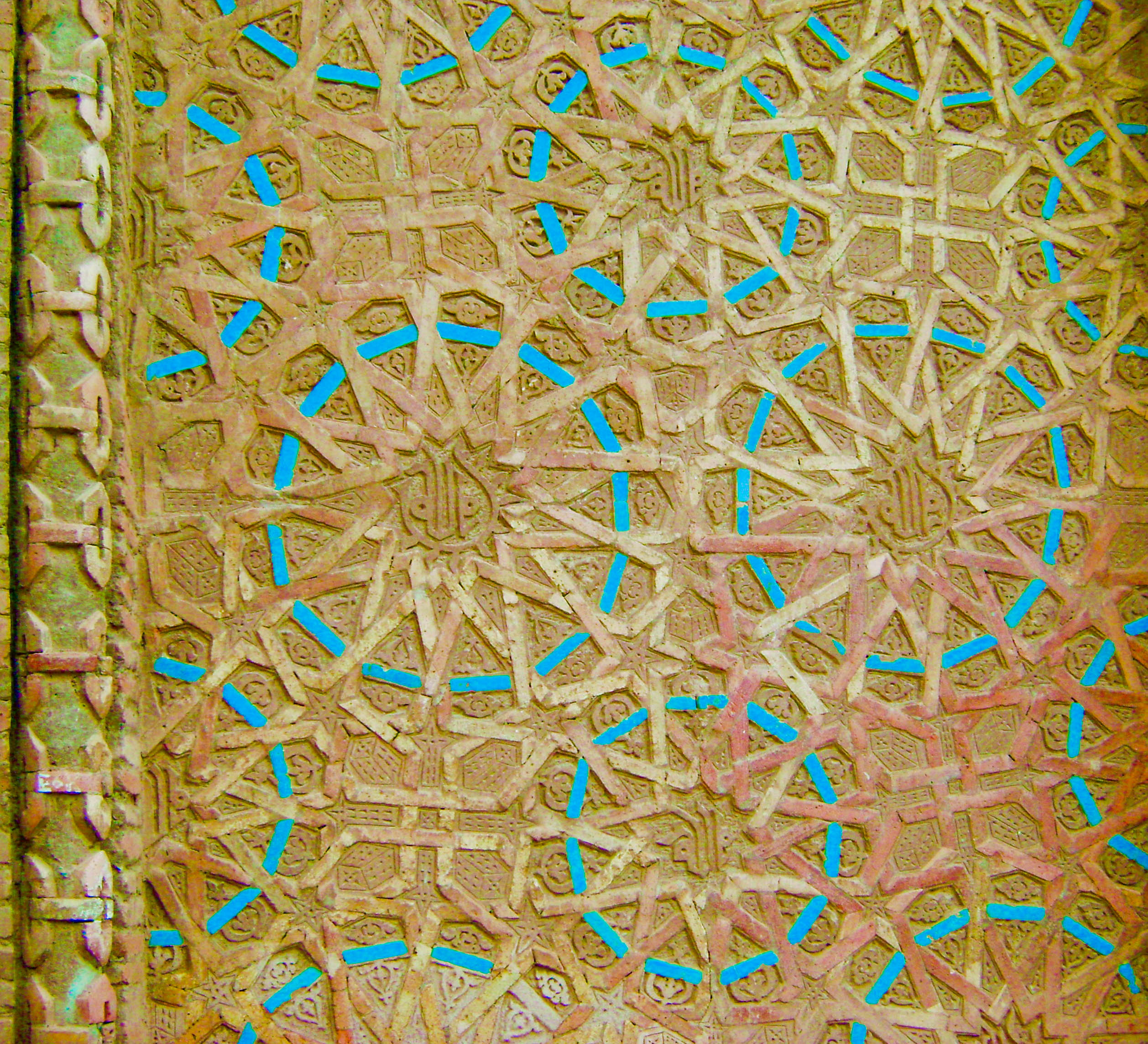 Details of exterior of Momine Khatun mausoleum (2) in Nakhchivan City (Nakhchivan Region of Azerbaijan Republic). Built by Ajemi Nakhchivani - ancient Azeri architector